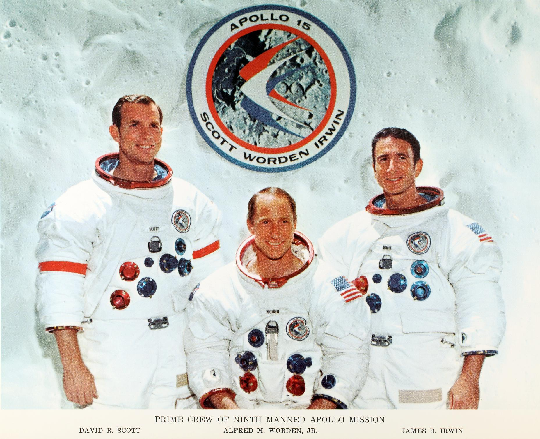 Apollo 15 crew - Irwin, Scott, Worden.